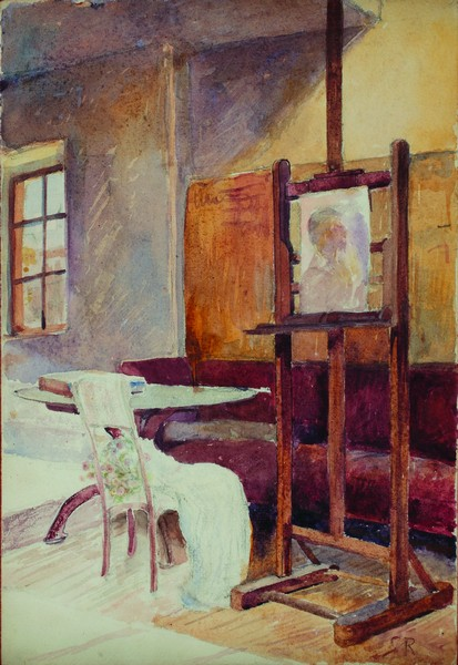 Dreaming in the atelier of the former morgue.